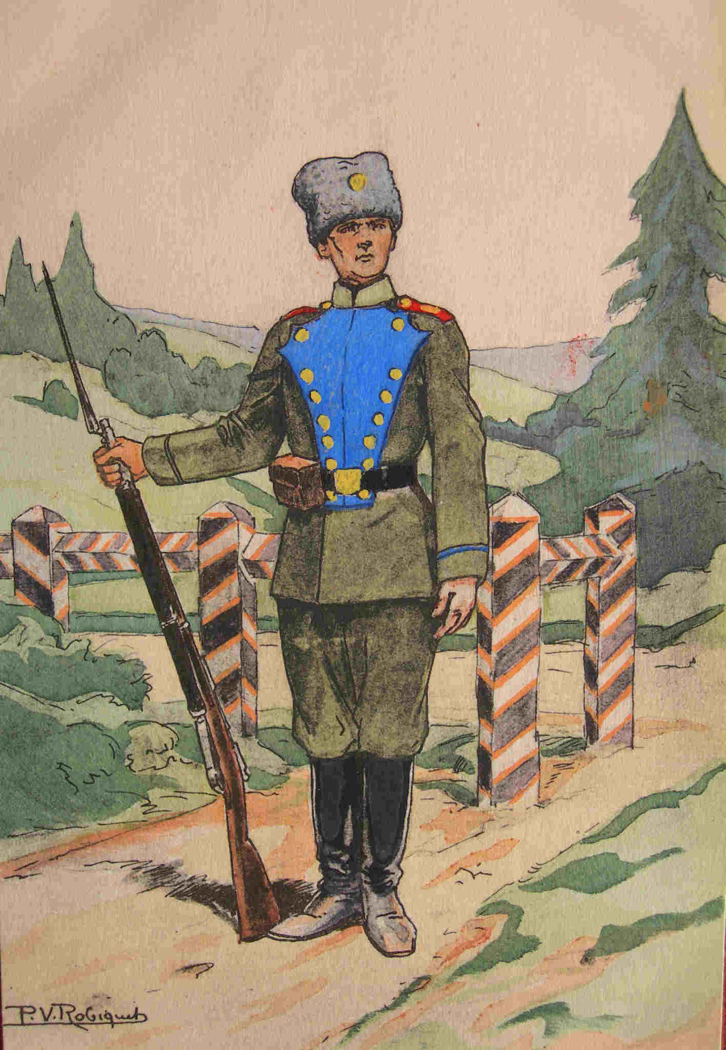 Uniform of 146-th Tsarytsyn Regiment. 1914 Postcard.